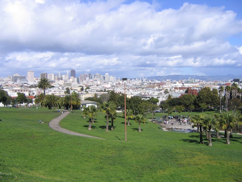 Dolores Park, San Francisco, California